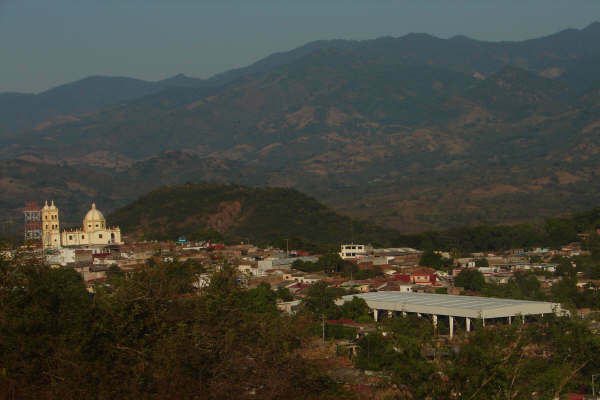 Picture taken in 2005 where the "huisilacate" was near "Las Colonias"